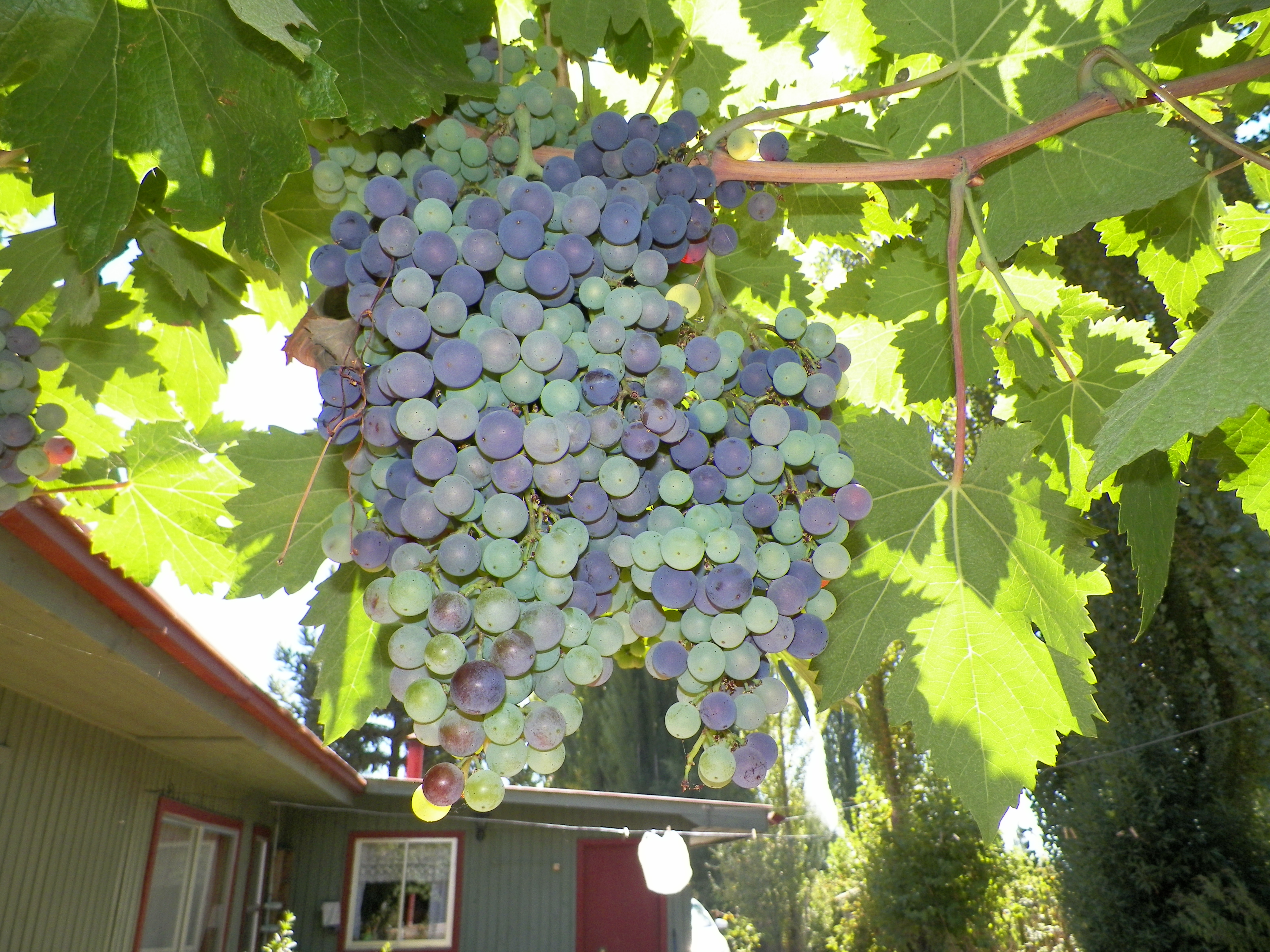 Región del Bio Bio